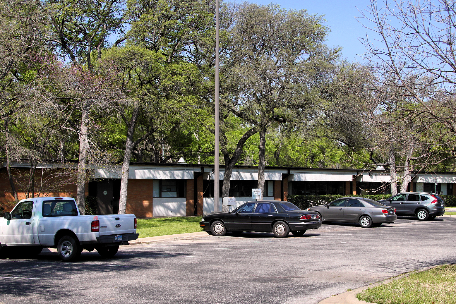 A building at the Brackenridge Field Laboratory in Austin, Texas, United States.